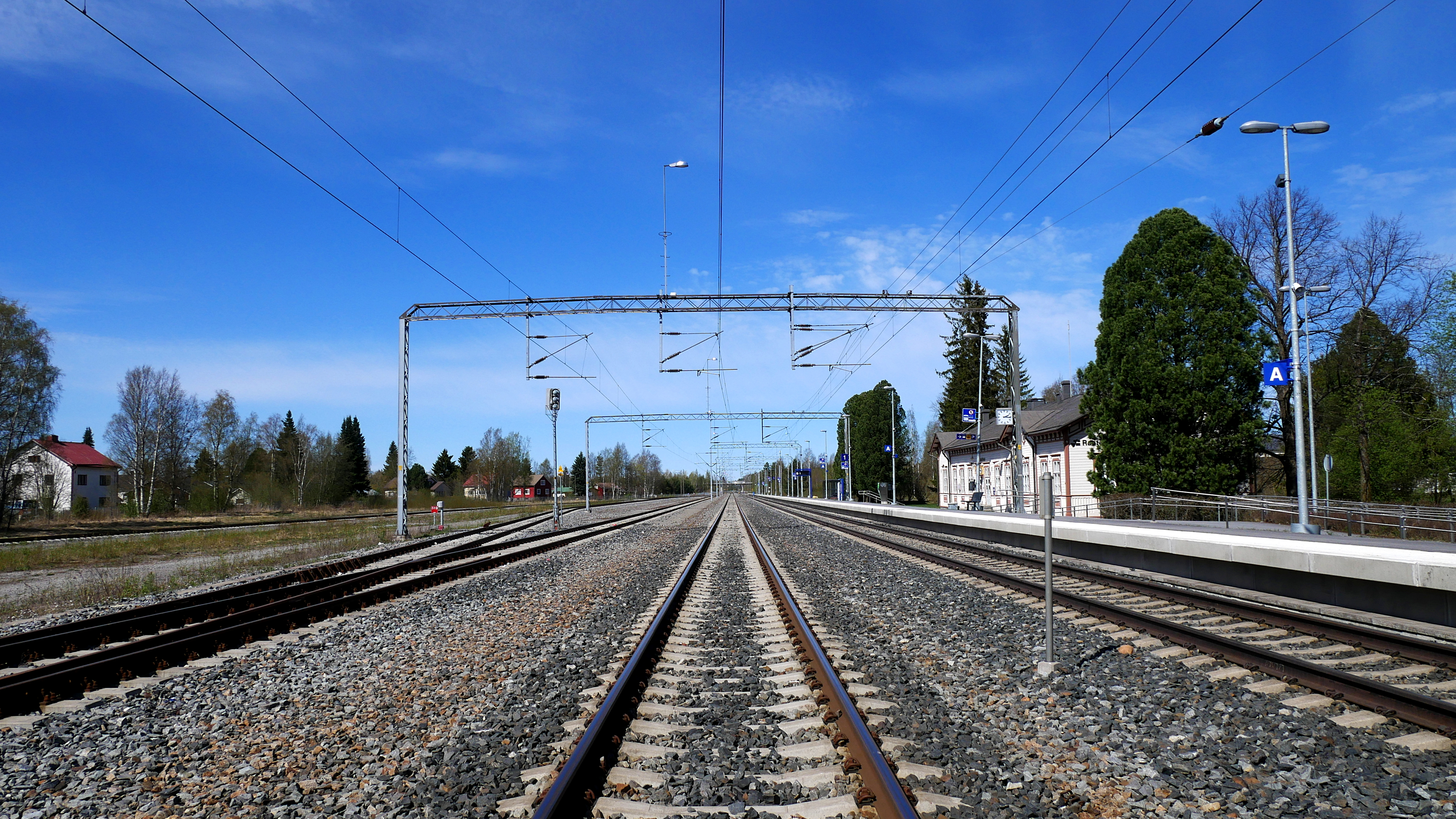 Kauhava railway yard.